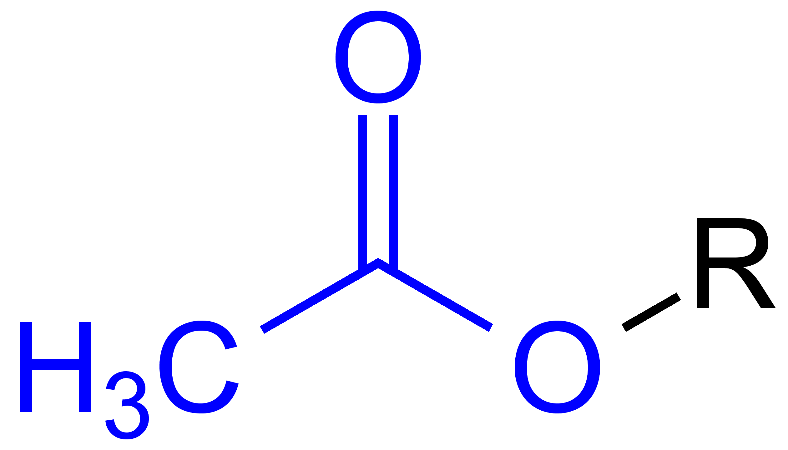 Acetates(Esters)_Structural_Formulae